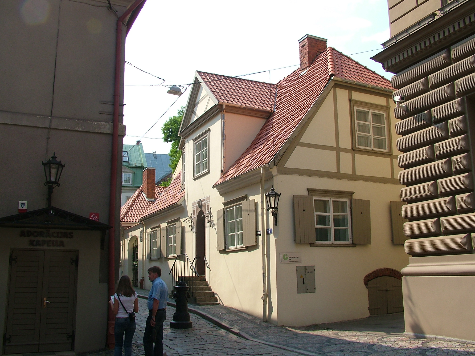 Street in Riga, Latvia.